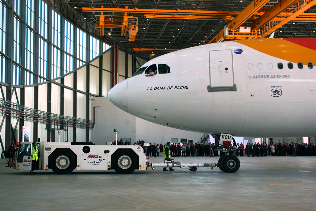 Nose detail of the first plane entering